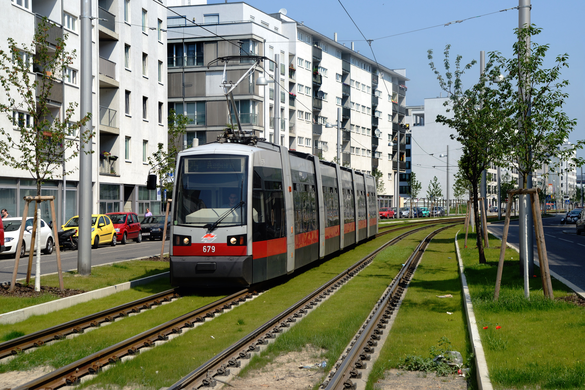 ULF B 679 (Line 25 Floridsdorf - Aspern) heading for the station Prandaugasse